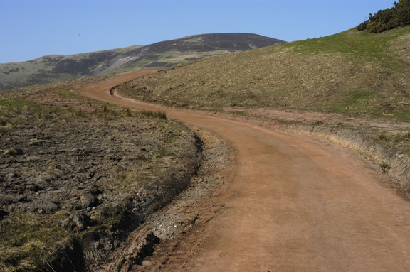 Military road Castlelaw The road leads over the slopes of Castlelaw Hill